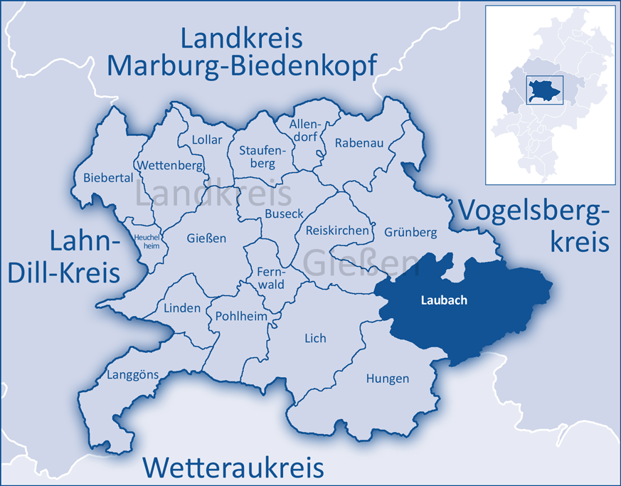 The map shows a district in the area of Gießen (district)